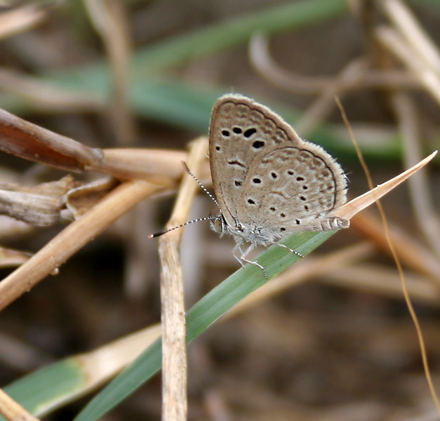 Dark Grass Blue Zizeeria karsandra in Hyderabad , India.